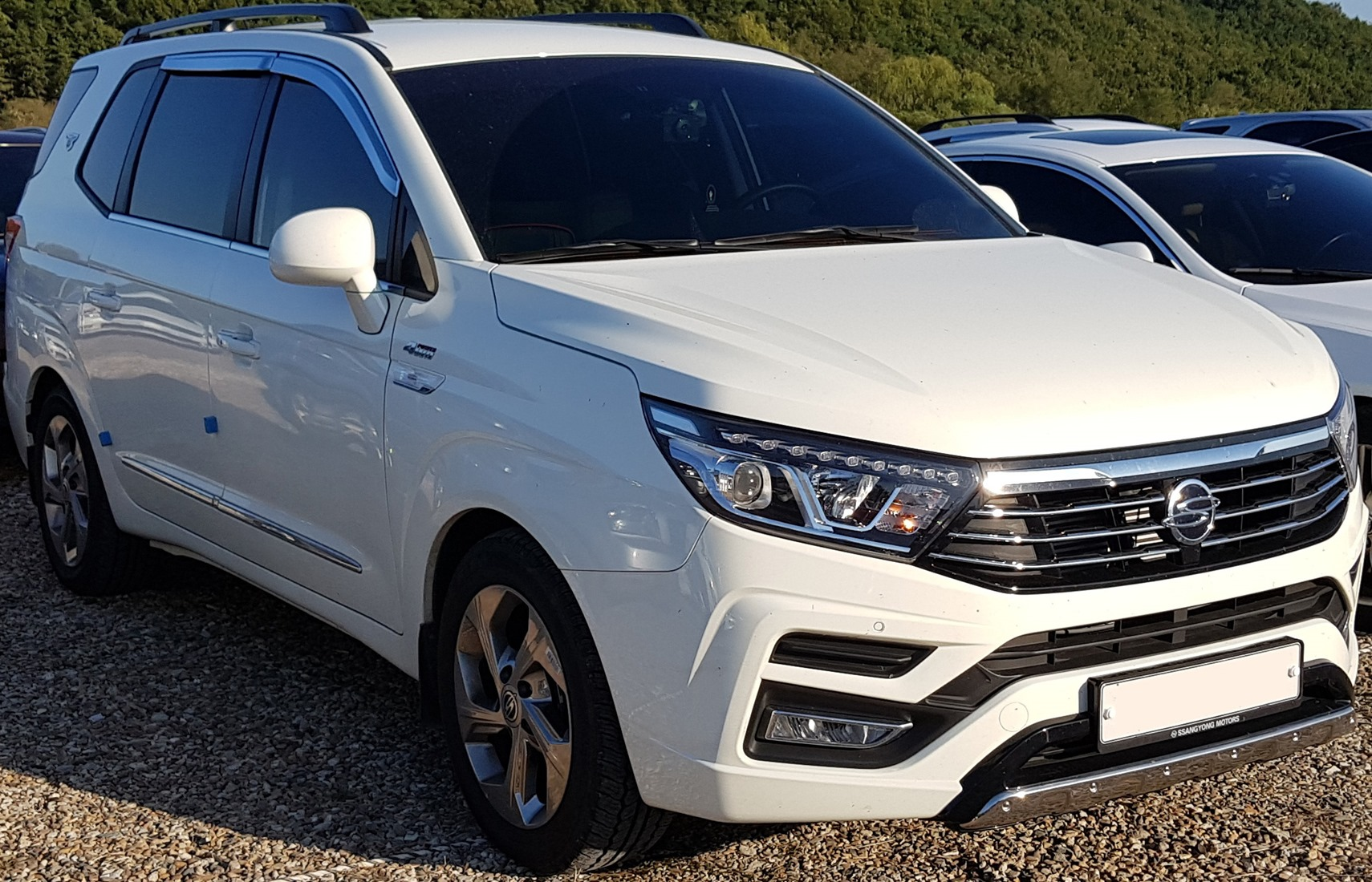 SsangYong Korando Turismo